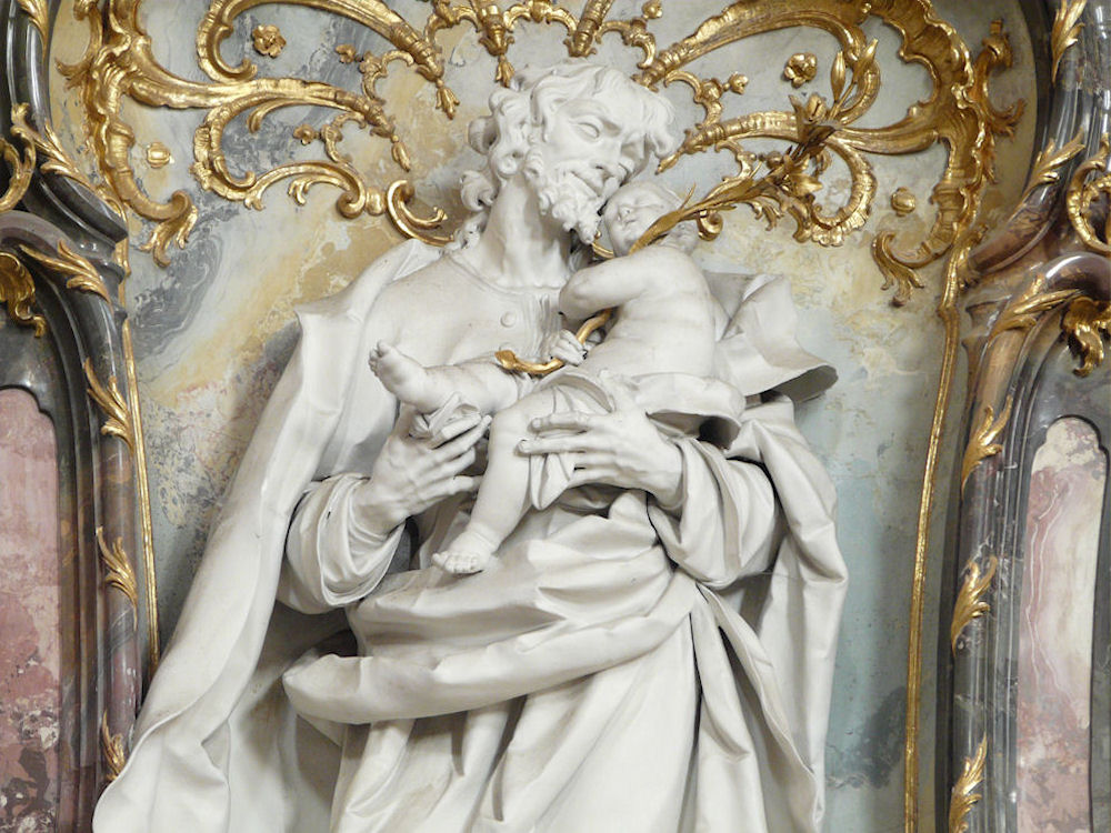 Altar of Saint Joseph at Ottobeuren Abbey, Ottobeuren, Germany